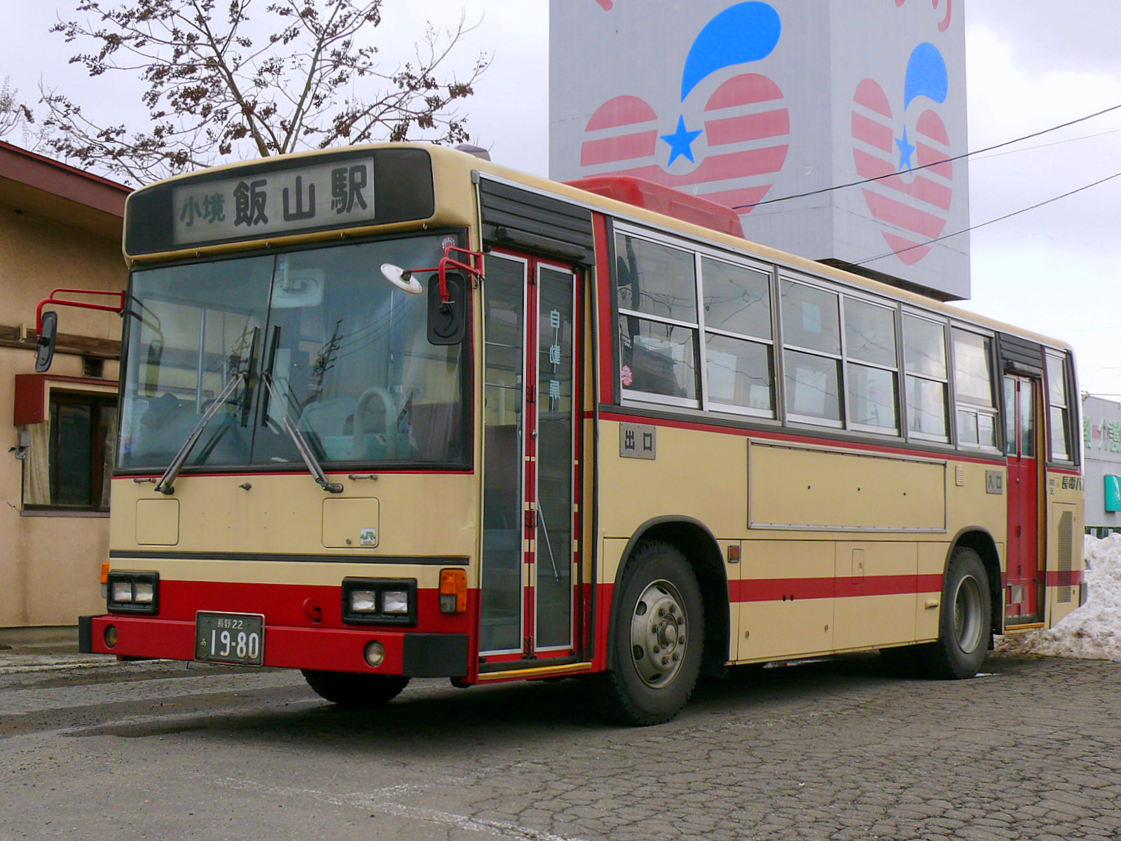 Kozakai Line of Nagaden Bus.It takes a picture in the Iiyama Station Bus terminal. (Japan).